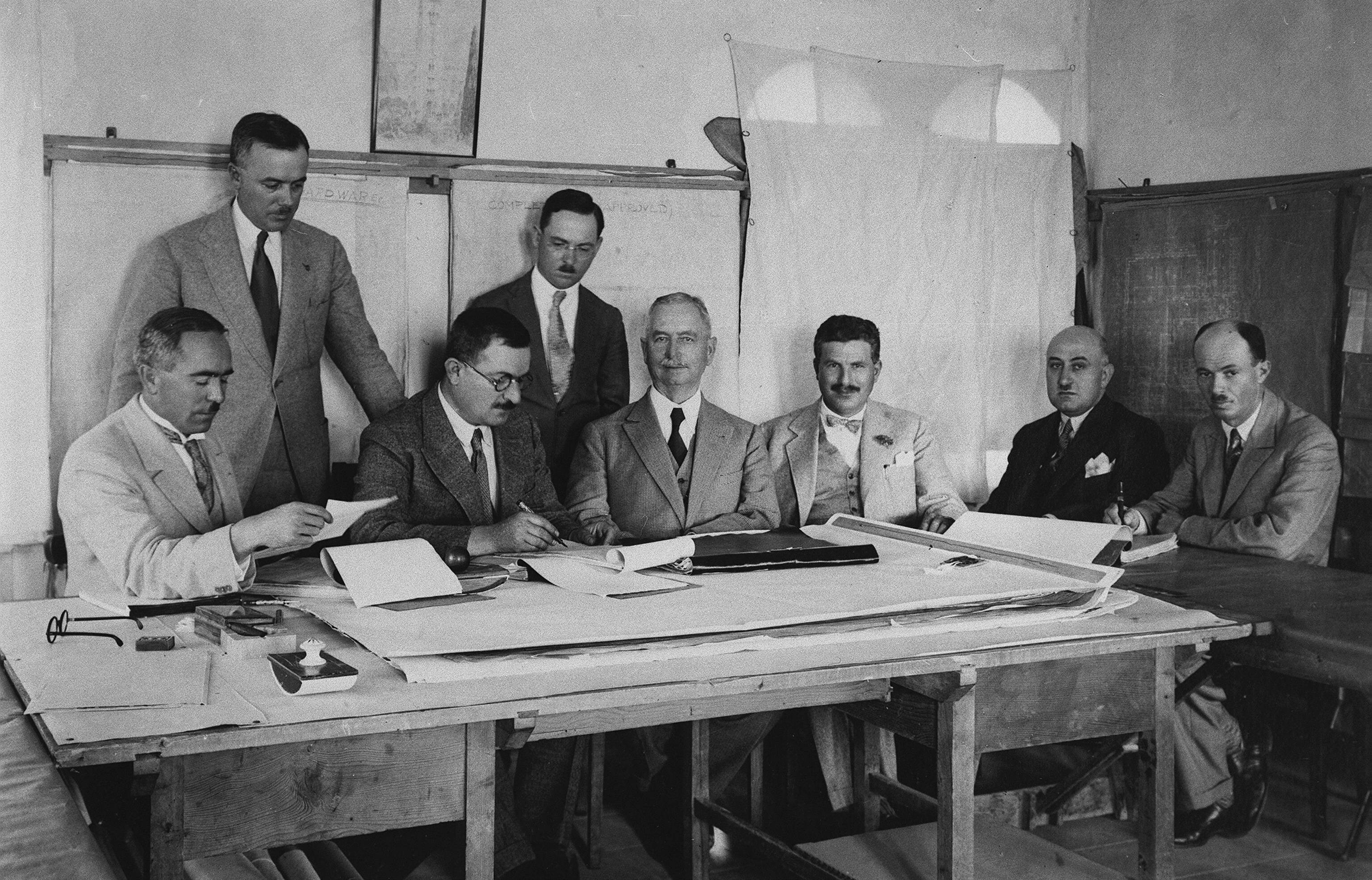 Signing the contract for the Jerusalem Y.M.C.A. building with the general contractor. L-R, MR'S. CLARK, ADAMSON, CANAAN, GLUNKLER, VESTER, AWAD, ALBINA & KATINKKA